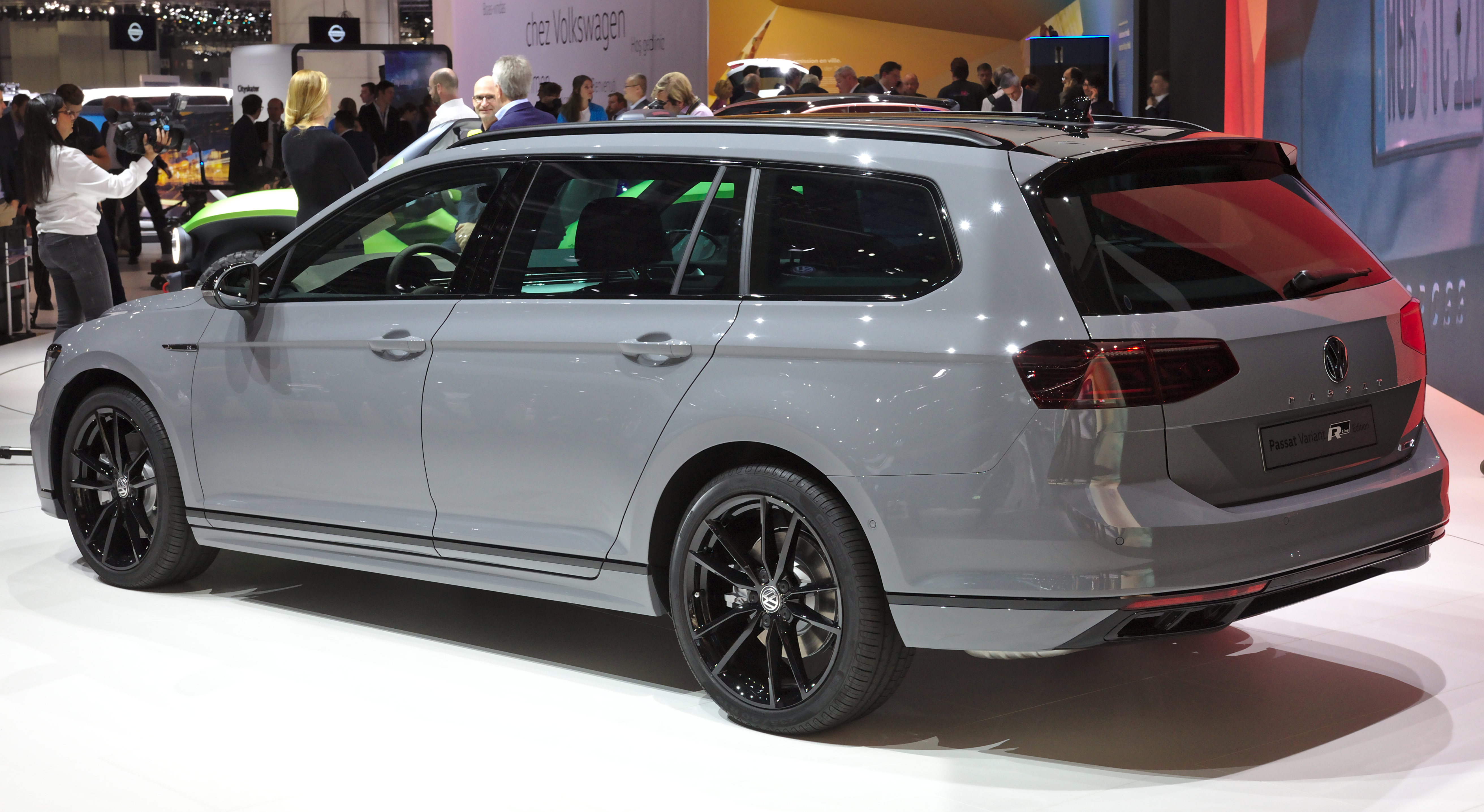 VW Passat Variant R-Line Edition at Geneva Motor Show 2019